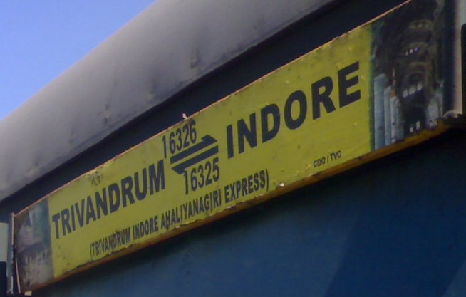 Indore Ahilyanagari